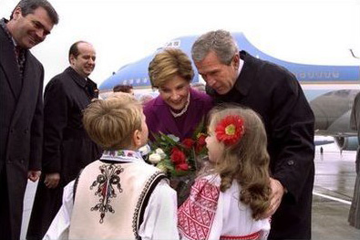 President George W. Bush and Laura Bush are greeted by children at the airport in Bucharest, Romania